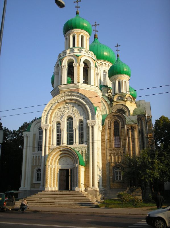 I would walk past this church every time I walked from the hotel into the centre of town